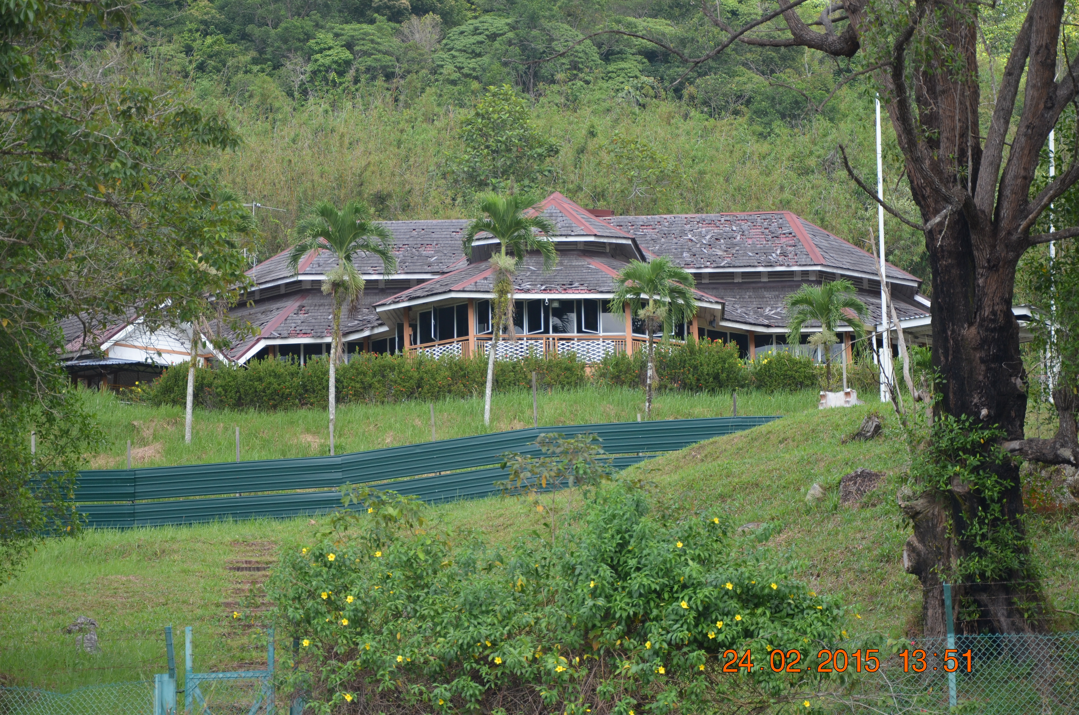 A picture of Brunei Twelve Houses